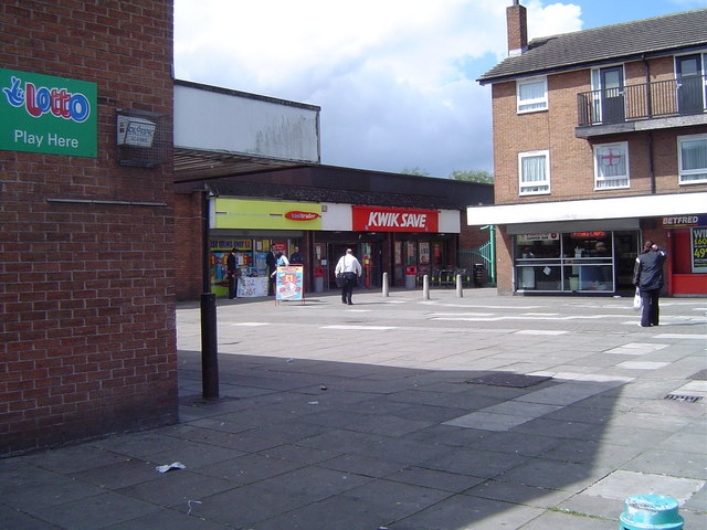 Mocha Parade. Shopping precinct by Great Clowes Street